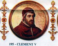 Pope Clement V in the Basilica of Saint Paul Outside the Walls, Rome